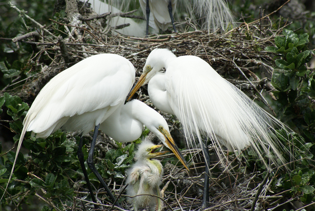 A Great Egret family at a natural rookery at St Augustine Alligator Farm Zoological Park, USA. Parents with a chick on a nest are in the foreground.